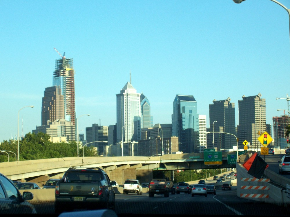 Schuylkill Expressway in Philadelphia